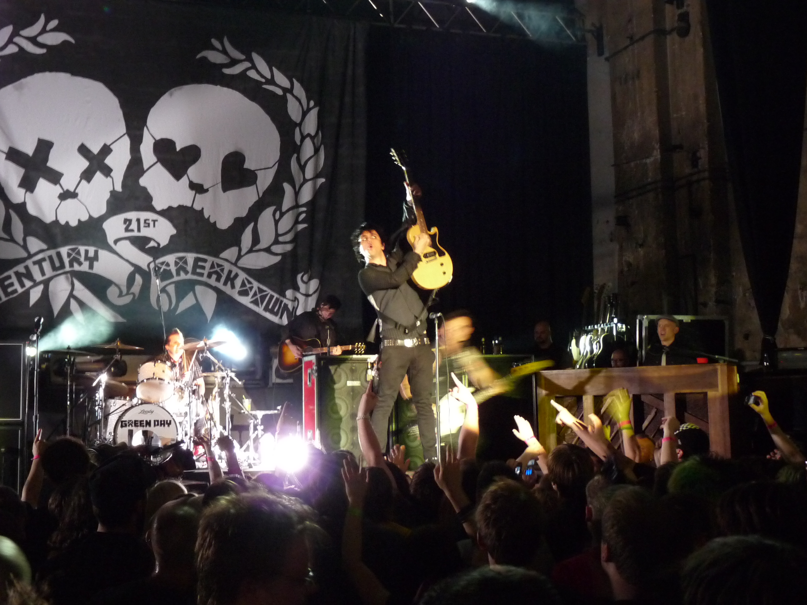 Green Day performing at the release party for their new album, 21st Century Breakdown.